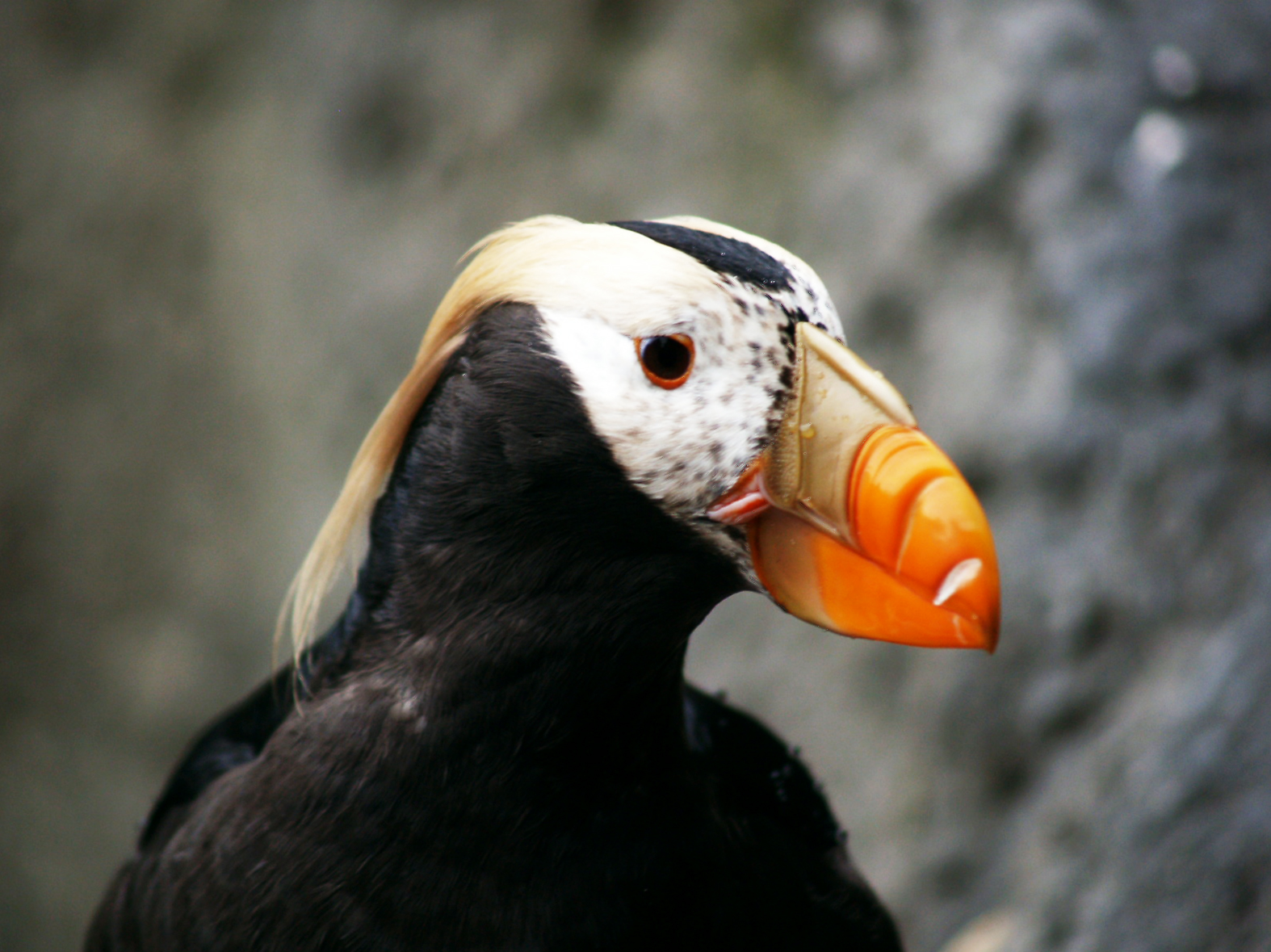 Dow Puffin